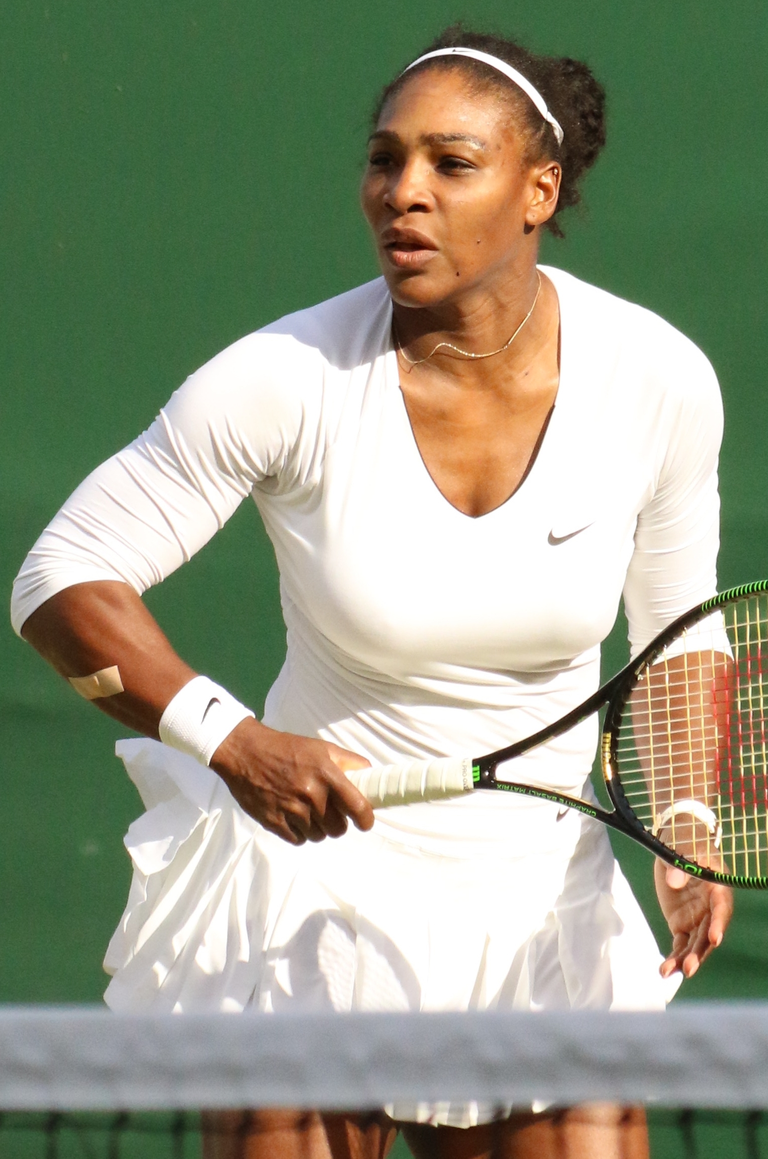 Williams S. WM16 (20)